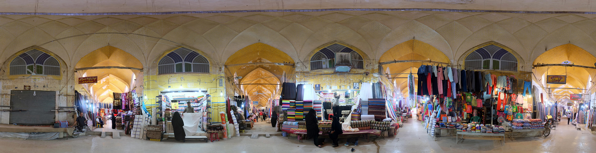 cut from